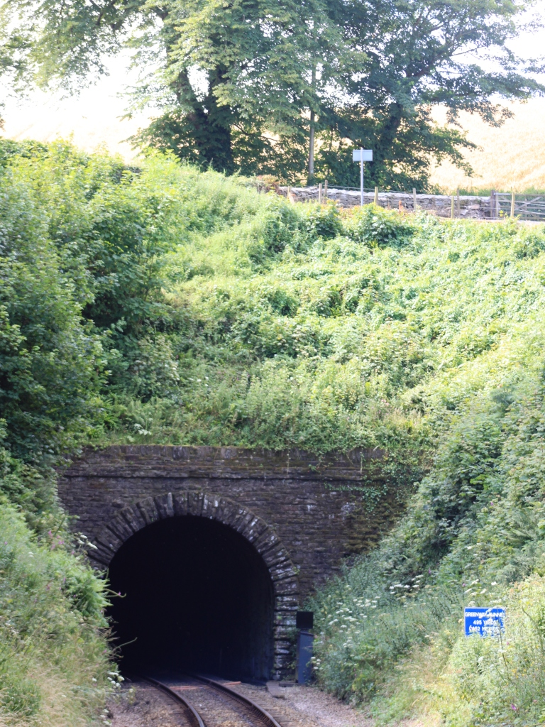 The north portal (that is, the one on the Paignton side) of Greenway Tunnel on the Dartmouth Steam Railway.